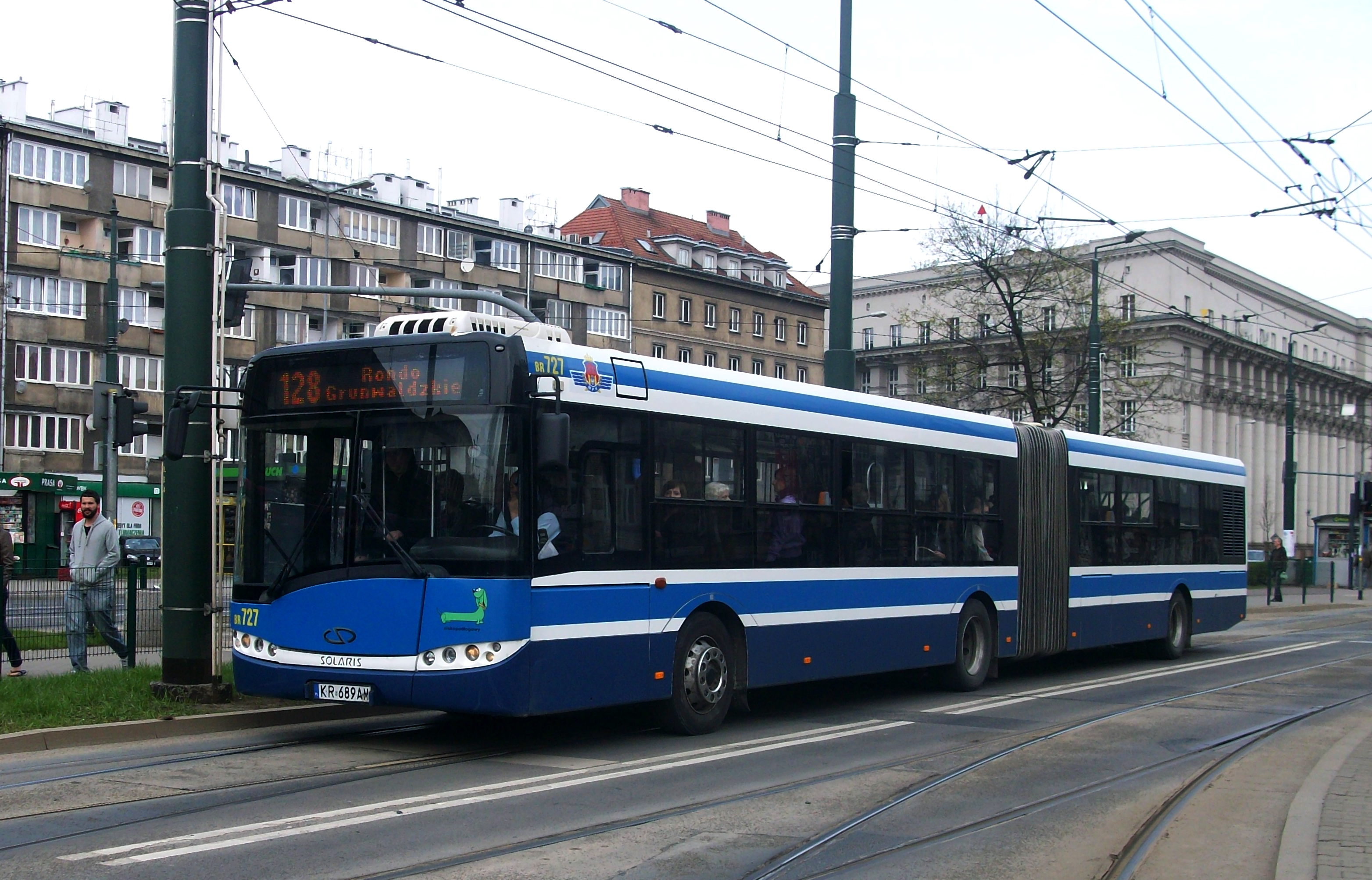 Solaris Urbino 18 bus (#BR727, reg. KR 689AM) in Kraków, Poland. Built 2006, MPK Kraków operator.